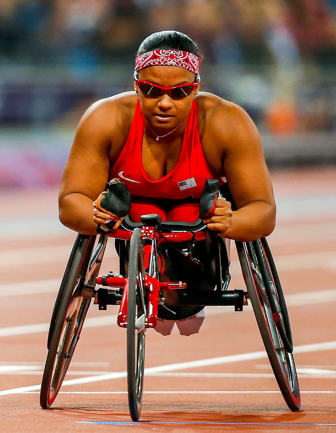 United States athlete Anjali Forber-Pratt at the 2012 Summer Paralympics after completing the 100m T53 sprint.